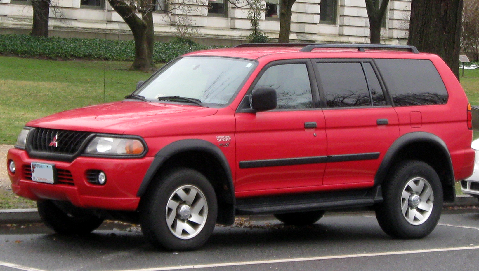 Mitsubishi Montero Sport photographed in Washington, D.C., USA.